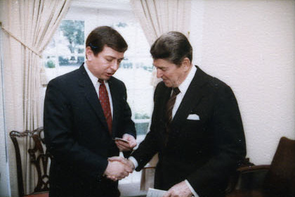 President Ronald Reagan, Joe Lieberman, and John Ashcroft